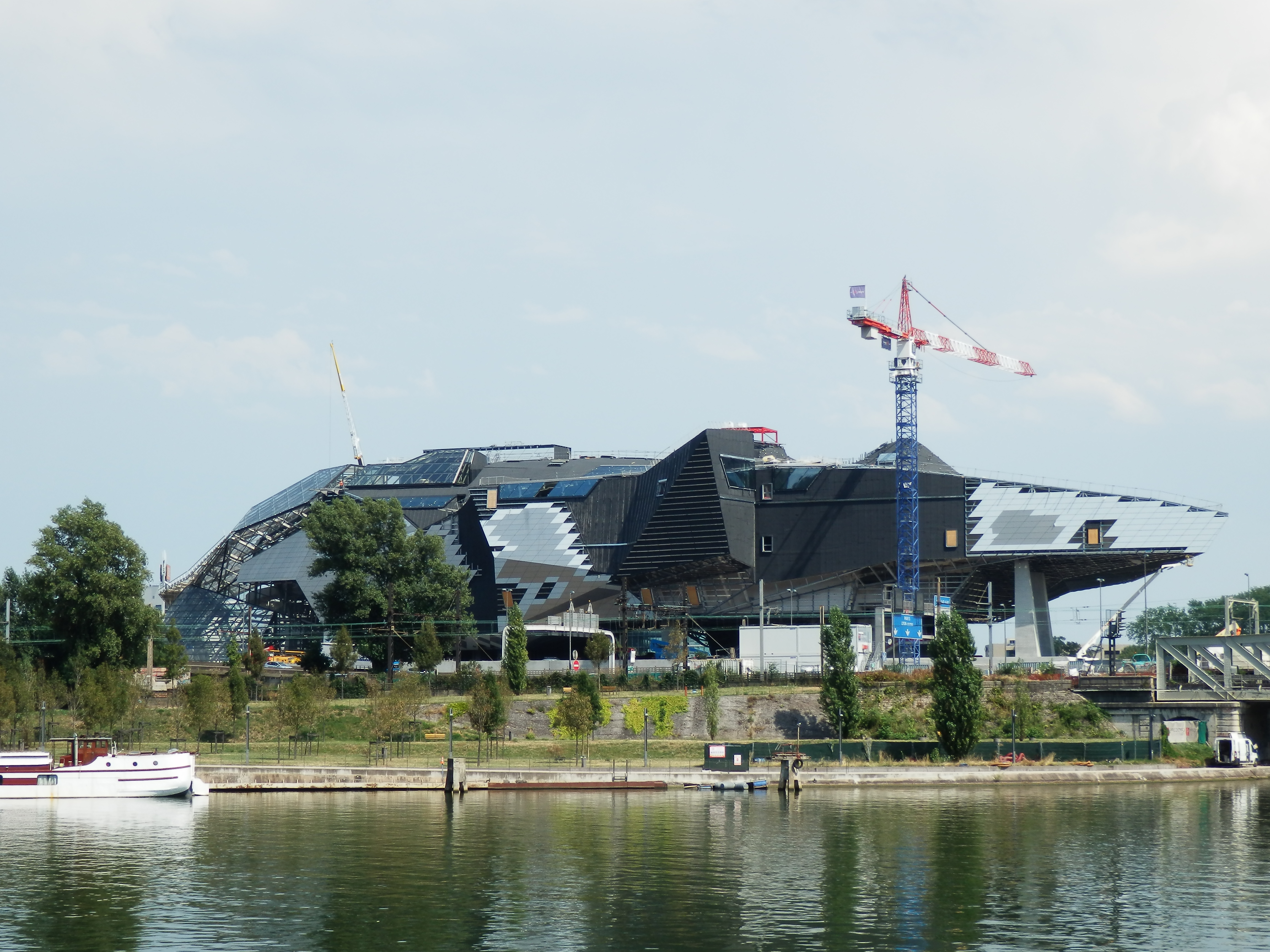 The Musée Des Confluences under construction, august 6th 2013